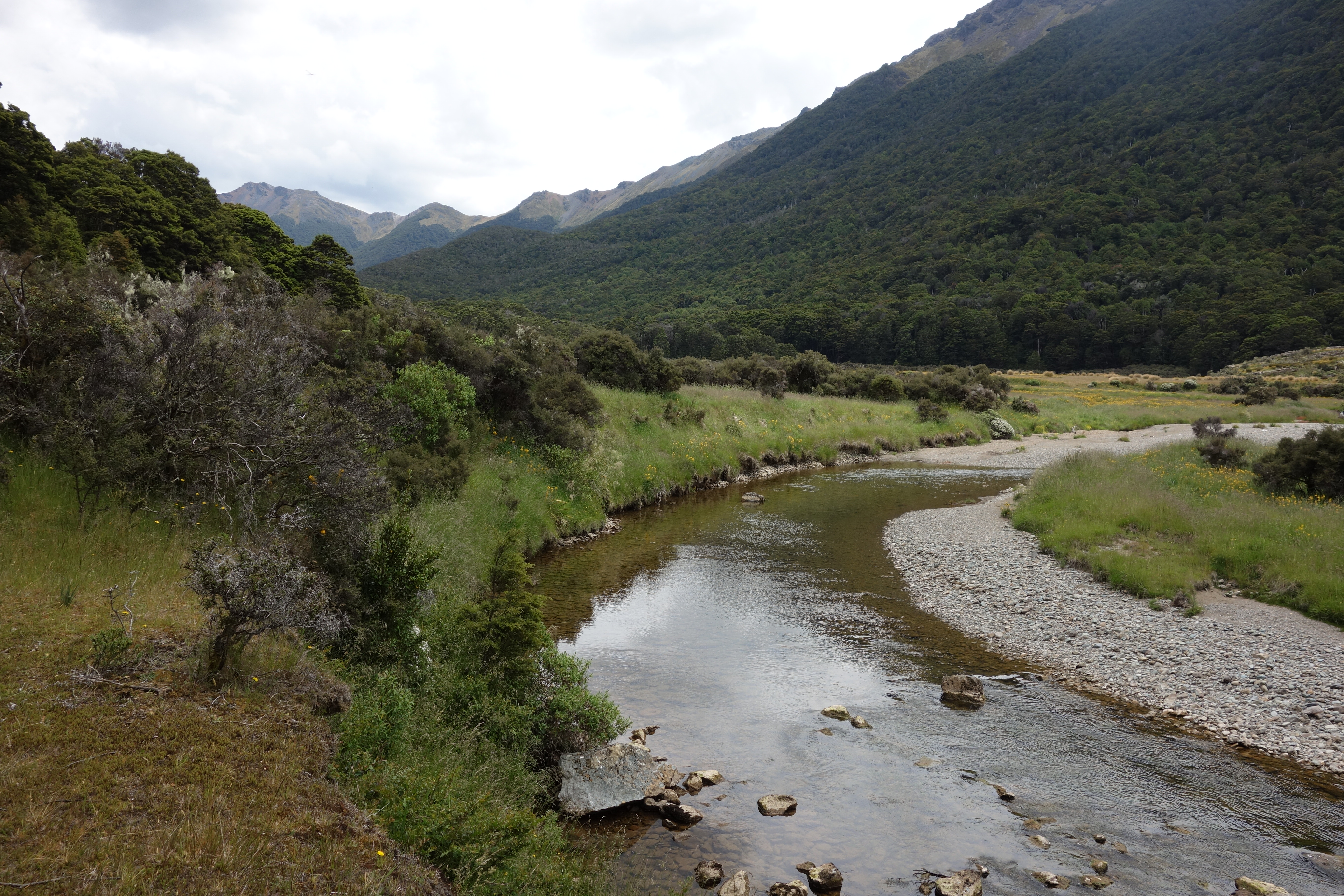 Cobb River in January 2016.